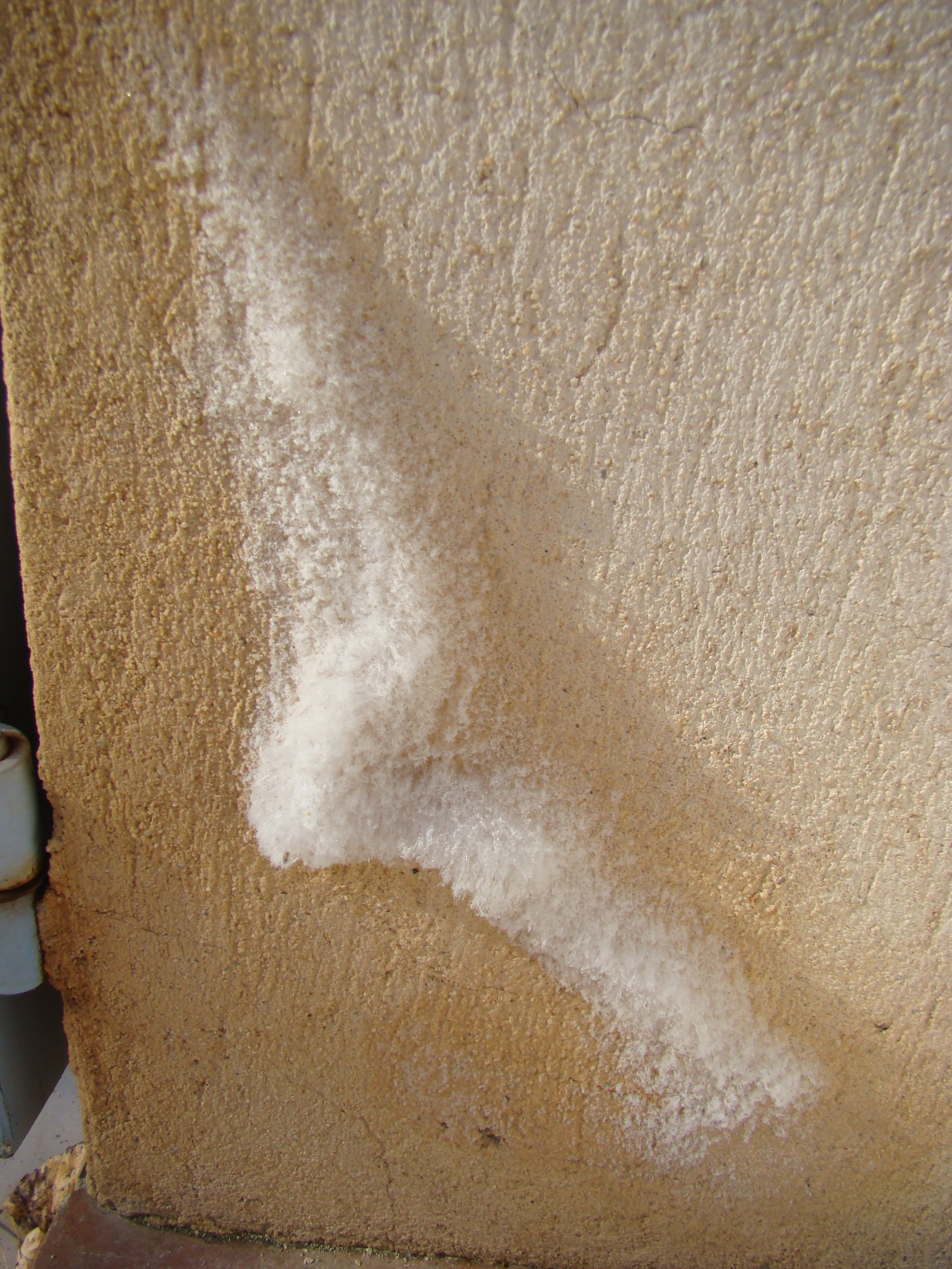 Salts of Potassium nitrate on a wall.